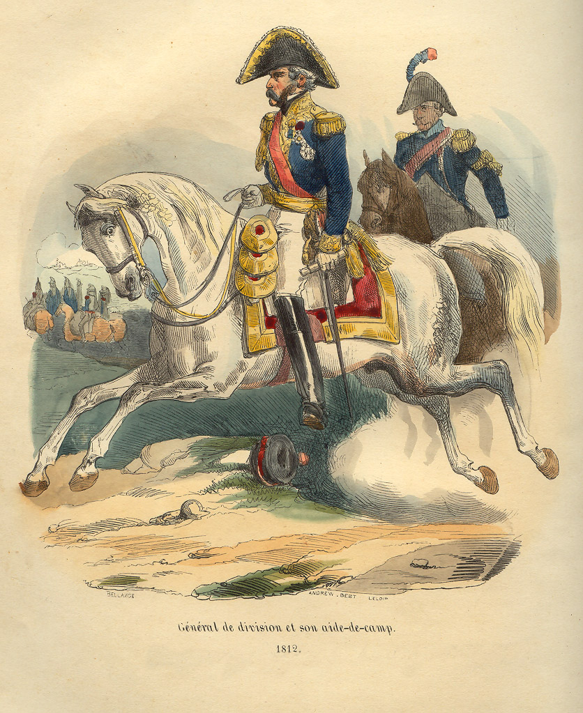 French horse mounted division general of Napoleon's troops in 1812. From book of P.-M. Laurent de L`Ardeche «Histoire de Napoleon», 1843